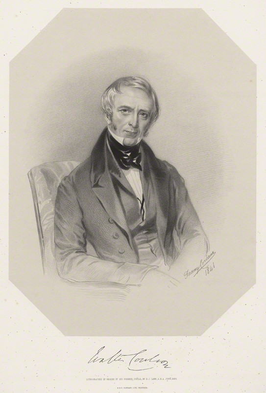 Portrait of Walter Coulson (1795–1860), English newspaper editor and barrister.